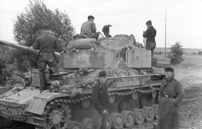 Information added by Wikimedia users.Member of the 4. Panzer-Division[1]